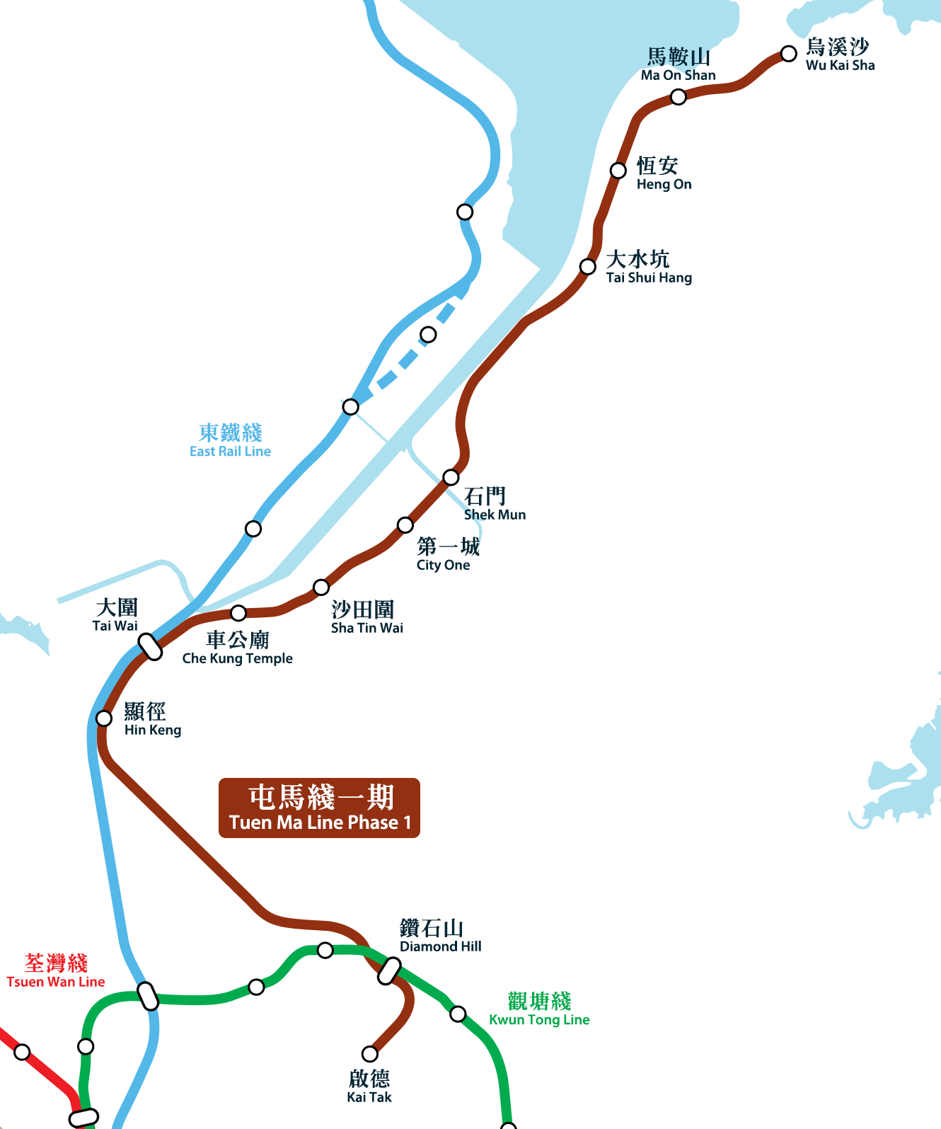 MTR Tuen Ma Line Phase 1 Geograpical Map